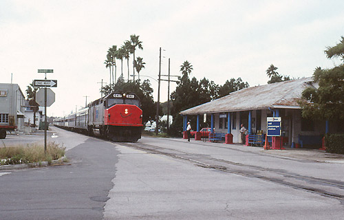 A northbound Amtrak train at Clearwater station in December 1979. The source identifies this as the Floridian; however, either the date of the train identification is incorrect.